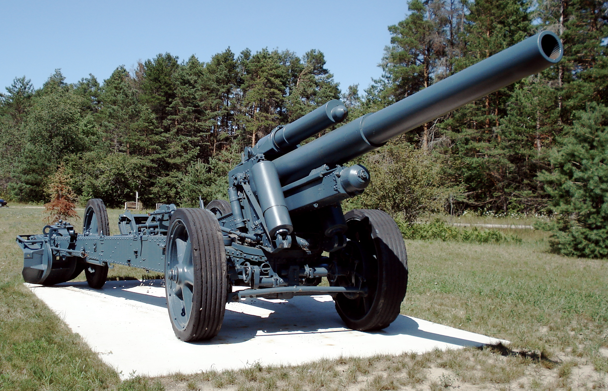 German 150 mm sFH18 howitzer displayed on the grounds of CFB Borden (Base Borden Military Museum). Photo taken on August 12, 2006. Source: Photo by me, User:Balcer.